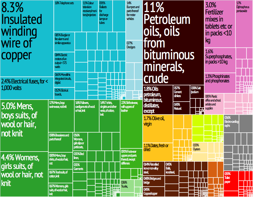 Tunisia Export Treemap from MIT Harvard Economic Complexity Observatory